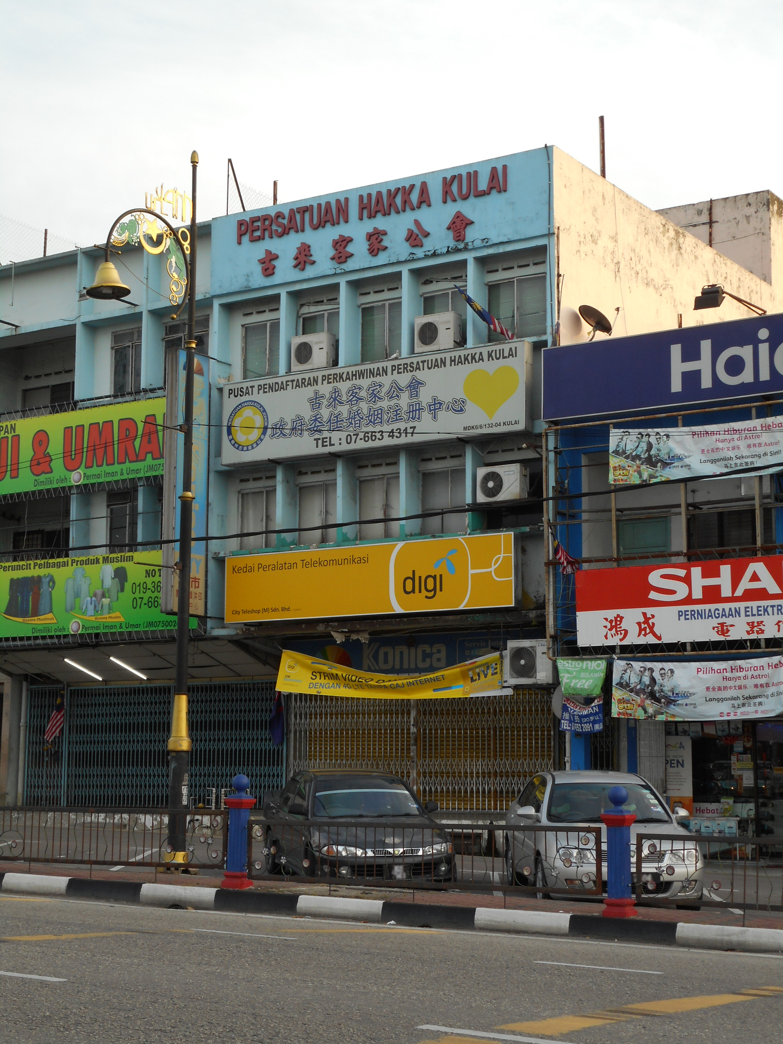 Kulai Hakka Association, Kulai, Johor, Malaysia